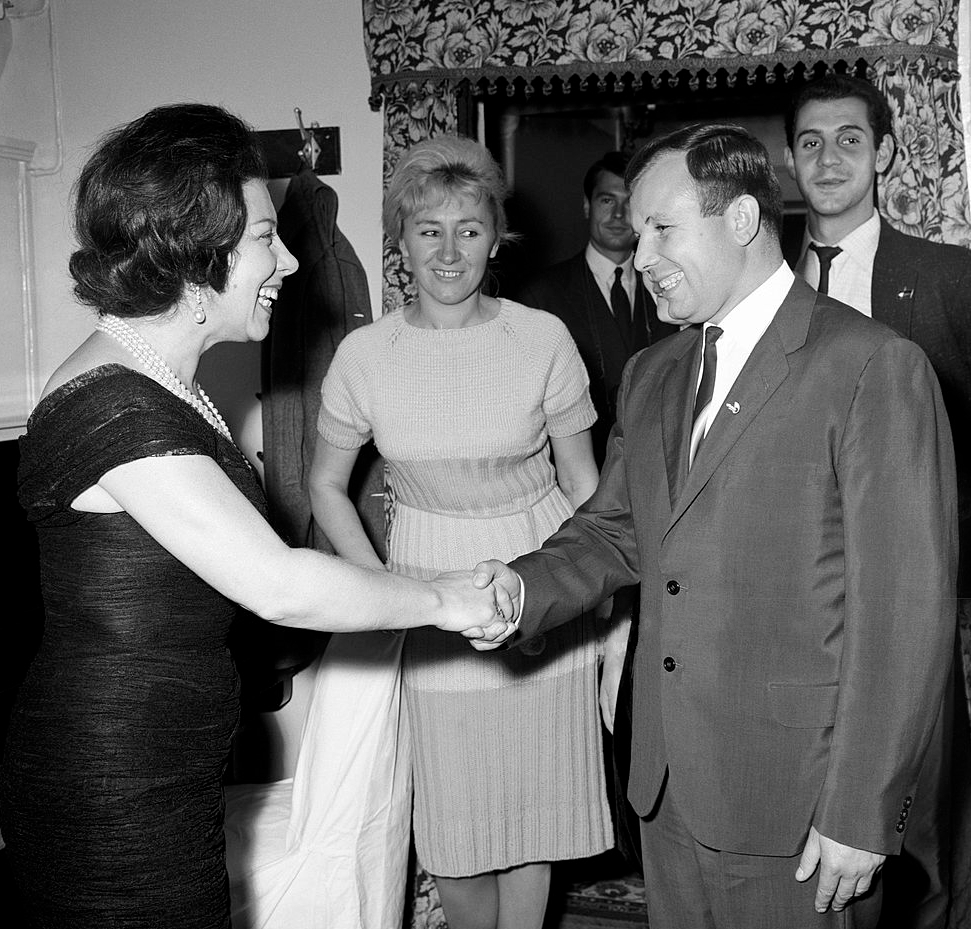 Giulietta Simionato shakes hands with the Soviet astronaut Yuri Gagarin at the end of the performance. Bolshoi Theatre, Moscow, September 1964.